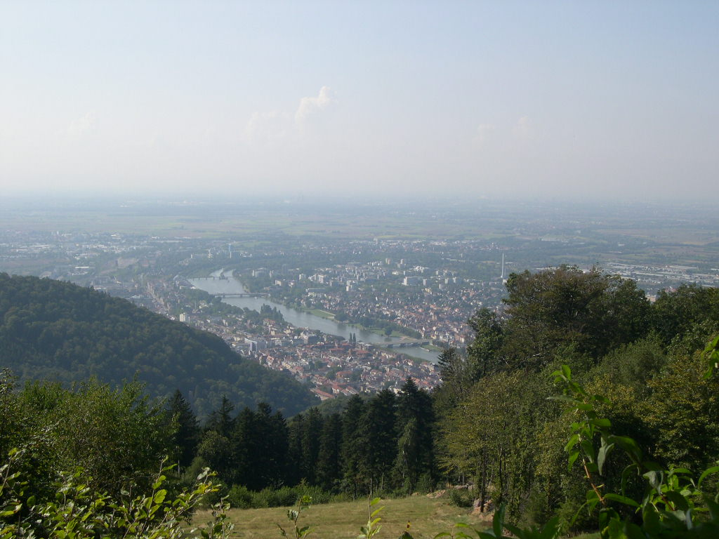 Heidelberg from the Königstuhl, Neckar River in center